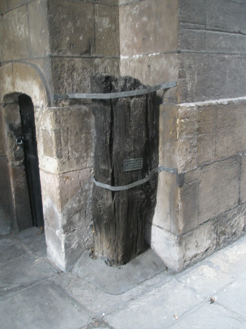 Roman remains underneath bell tower at St Magnus-the-Martyr, near to City of London, Great Britain.